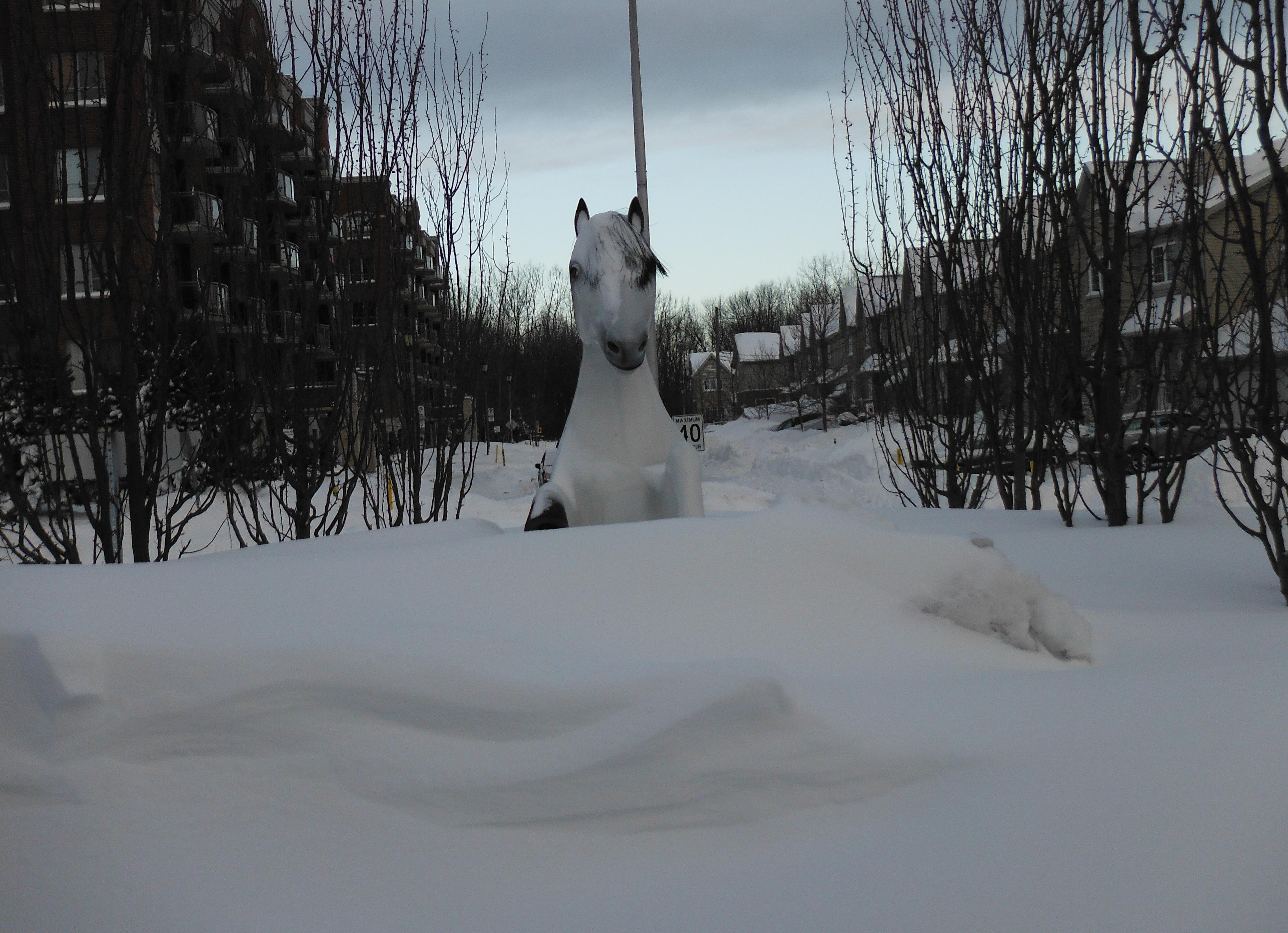 At the roundabout at the top of Source Blvd ( formerly St Remi) there is a statue of a white horse. Rapides du Cheval Blanc is the area.